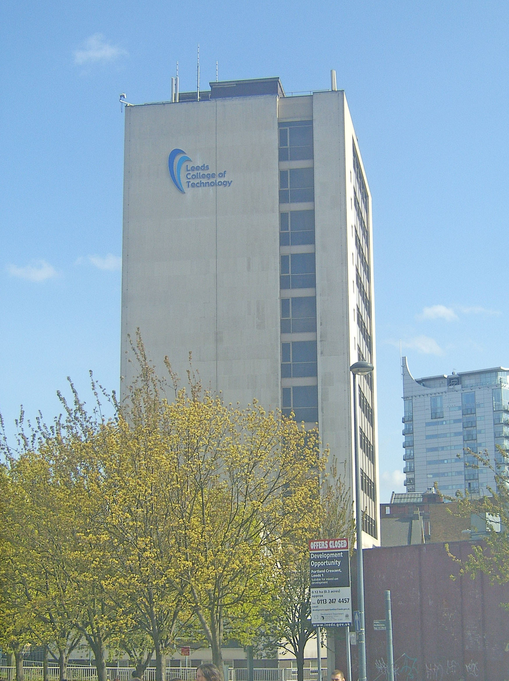 Photo of Leeds College of Technology